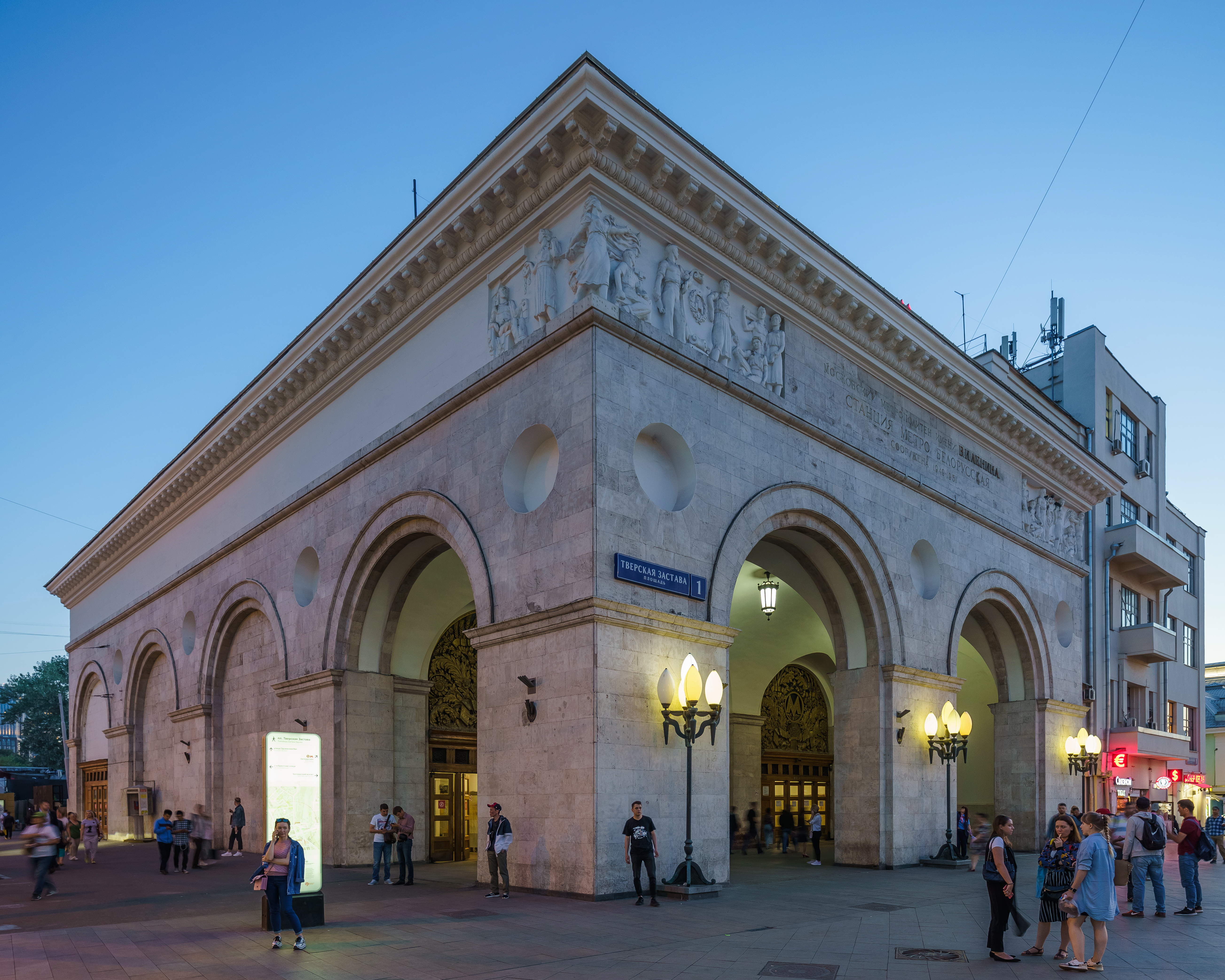 Entrance building of Belorusskaya (KL) metro station in Moscow, Russia